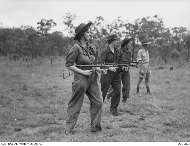 AWAS with Owen guns. Members of the Australian Womenâ€™s Army Service being instructed in the use of the Owen gun at Belmont in Queensland. From left to right: Lance Bombardier Lorna Molloy, Gunner Francis Fowler, Gunner Pamela Holden, instructor Warrant Officer Gilbert Page. Ronald N. Keam 062586 Circa 1942